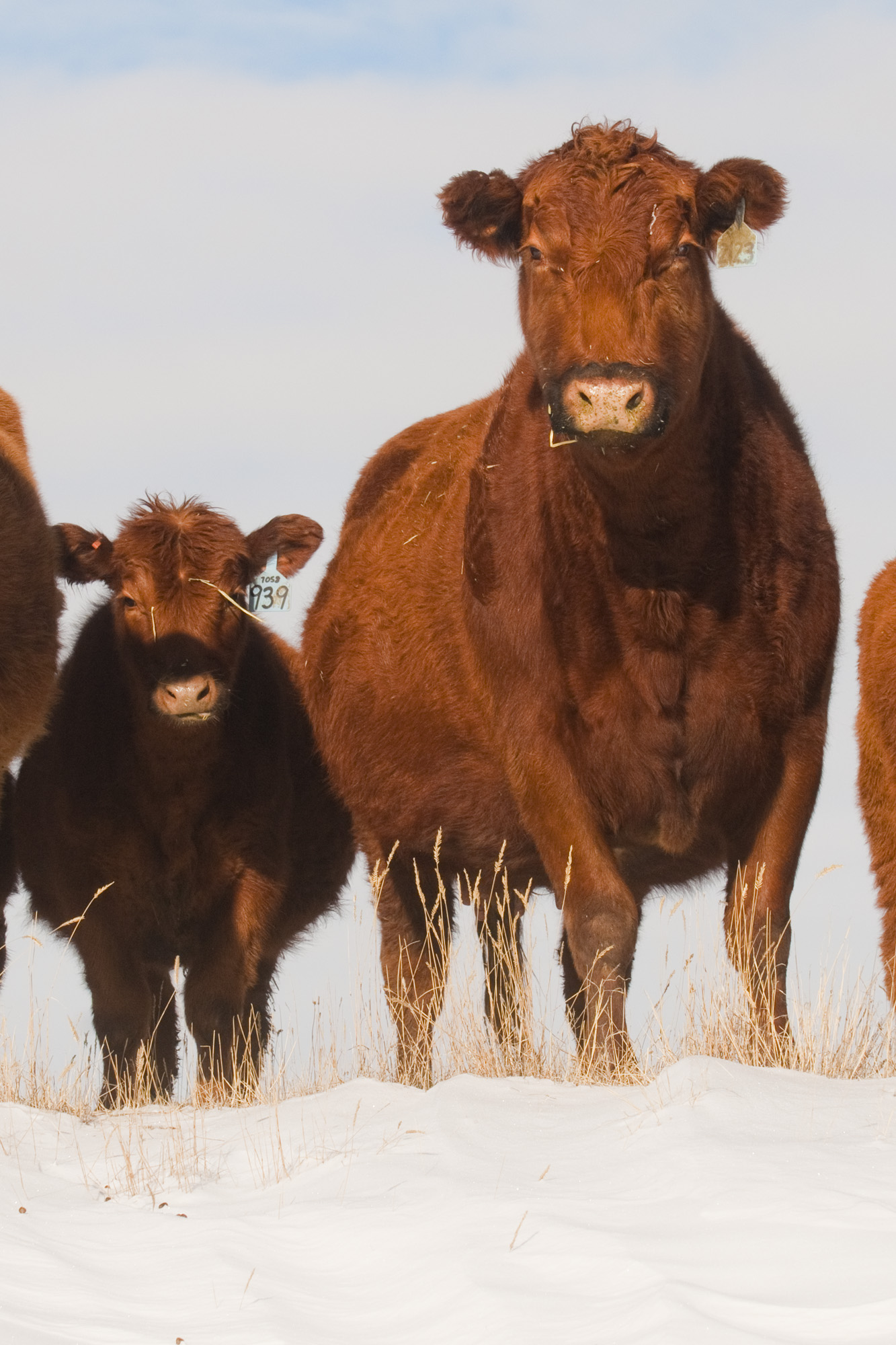 Red Angus cow and calf